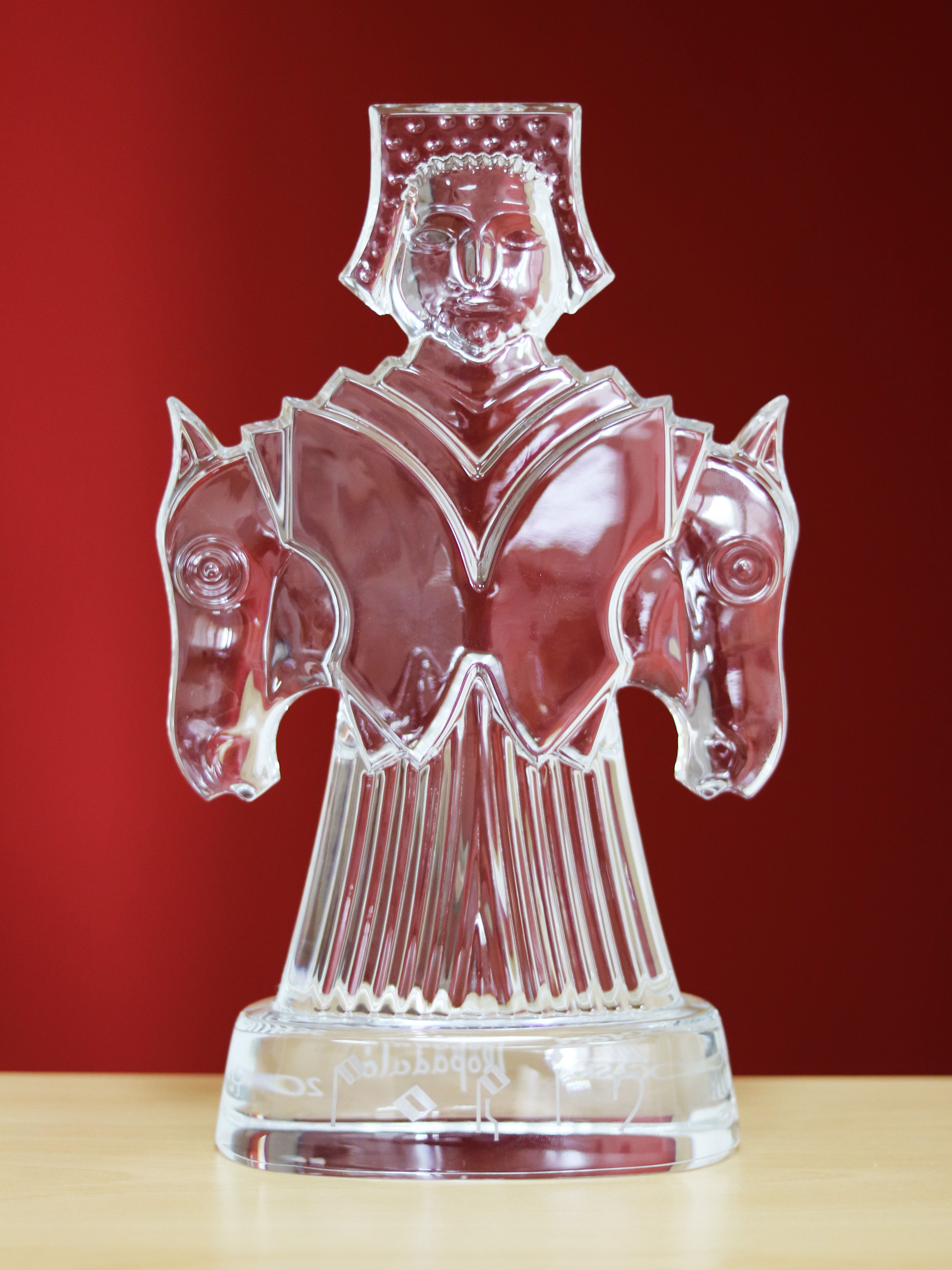 The statuette of the 2015 Porin Award.